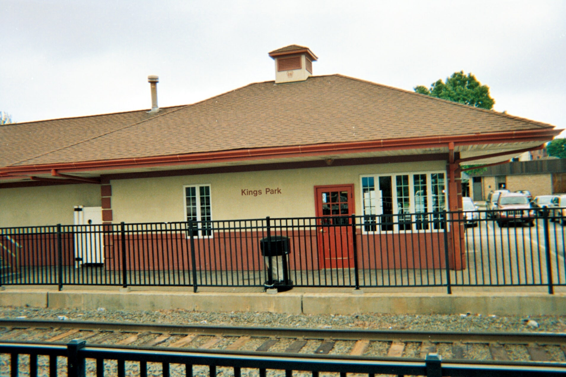 Kings Park Long Island Railroad Station taken from the southbound platform.